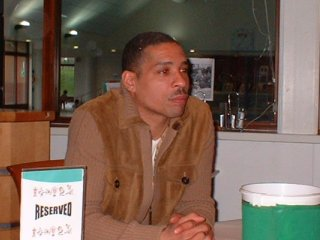 Photo of Des Walker at taken in 2003. Taken with permission from